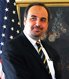 Czech Republic Foreign Minister Jan Kohout at the Waldorf Astoria hotel during the 64th Session of the UN General Assembly in New York City, New York September 21, 2009. [State Department photo / Public Domain]